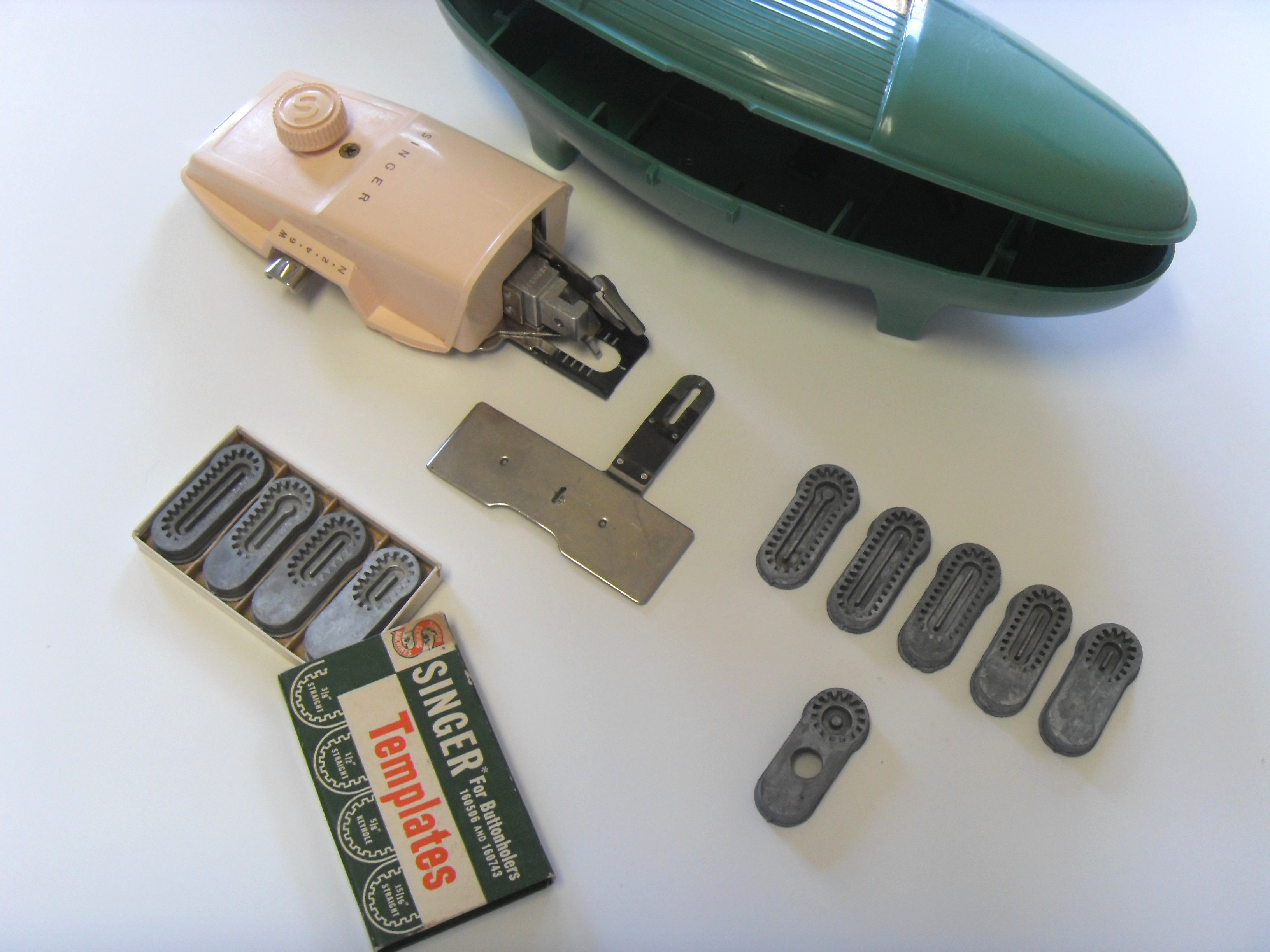 Singer model 489510 buttonholer, complete kit, with extra templates